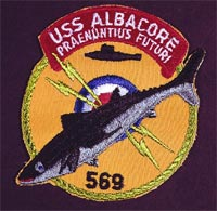 Patch of the USS Albacore, Public domain photo from history.navy.mil